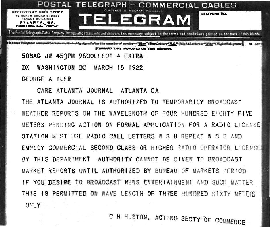 On March 15, 1922 the U.S. Department of Commerce sent a telegram to the Atlanta Journal newspaper authorizing the start of WSB radio